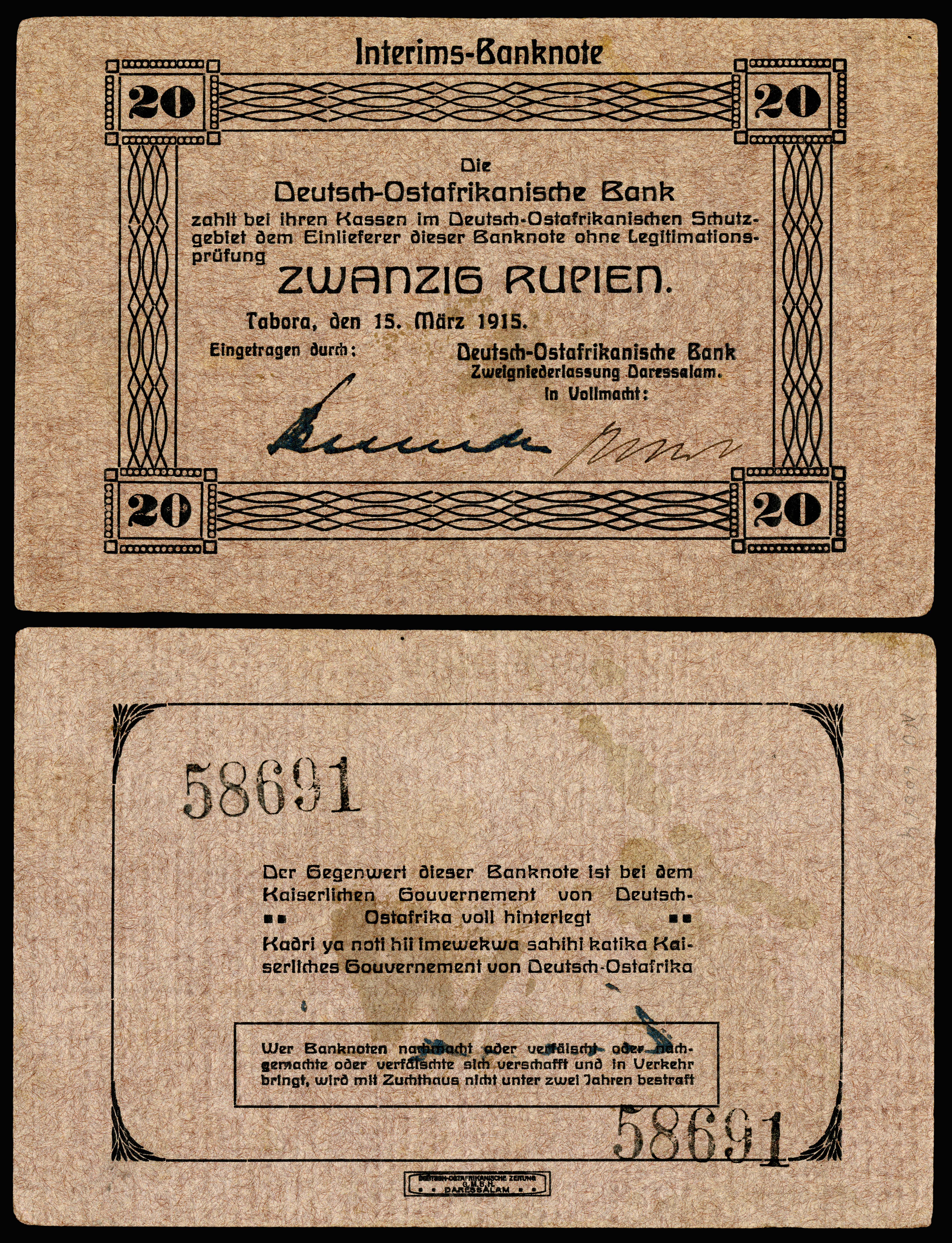 German East Africa (Deutsch-Ostafrikanische Bank), 20 Rupien (1915). Part of an emergency issue of note during World War I.